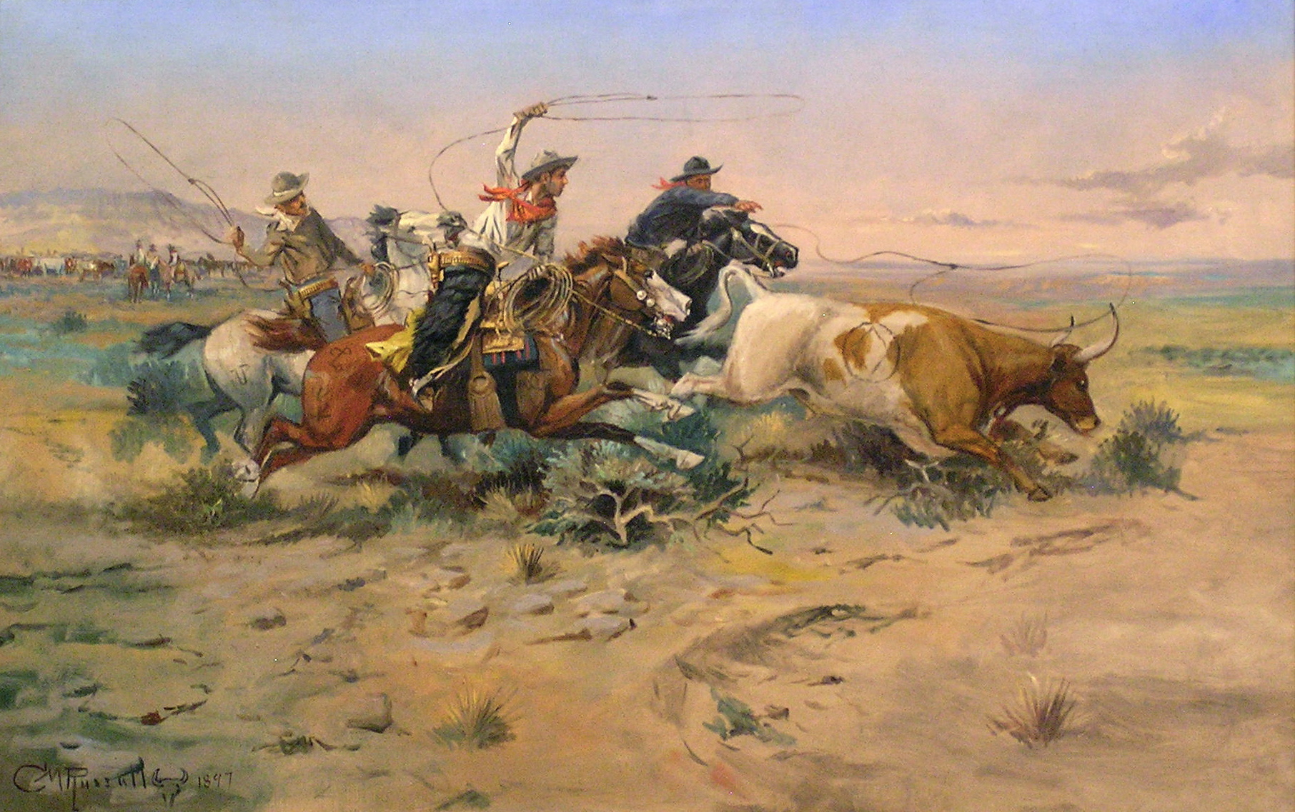 "The Herd Quitter." Oil C.M. Russell, Montana Historical Society MacKay Collection, Helena, MT